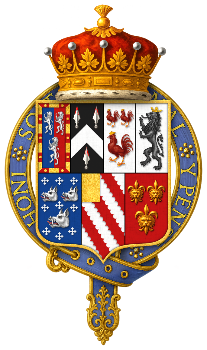 Coat of arms of Sir William Herbert, 1st Earl of Pembroke, KG Quarterings based on those in the Portrait of Pembroke in the National Museum in Cardiff.